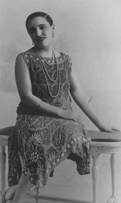 Gloria Faluggi- actriz argentina